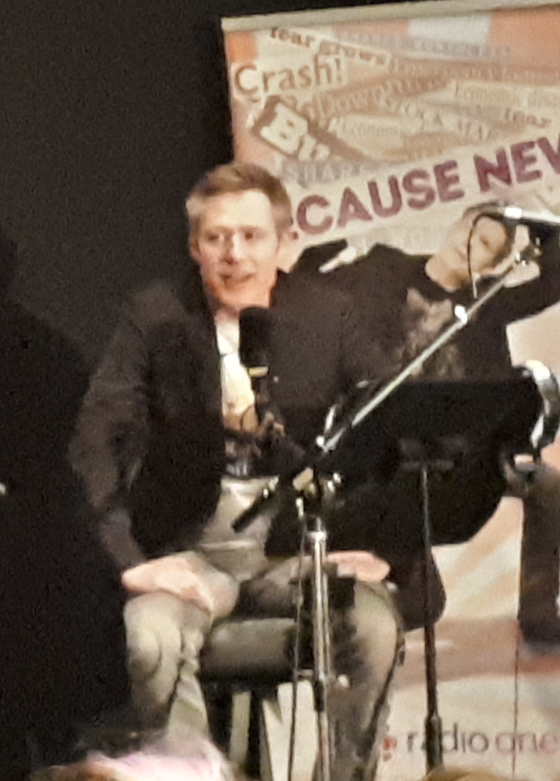 Gavin Crawford on set during a taping of Before News.